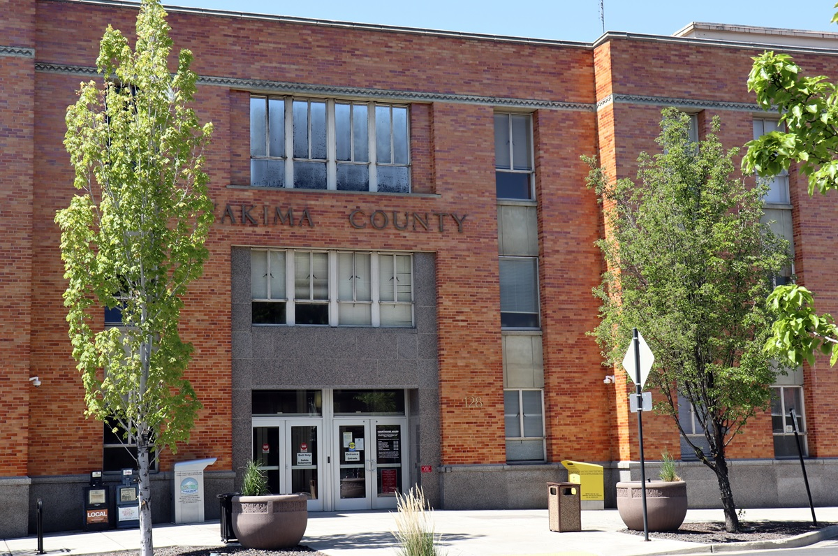 Yakima County Courthouse pictured in 2020